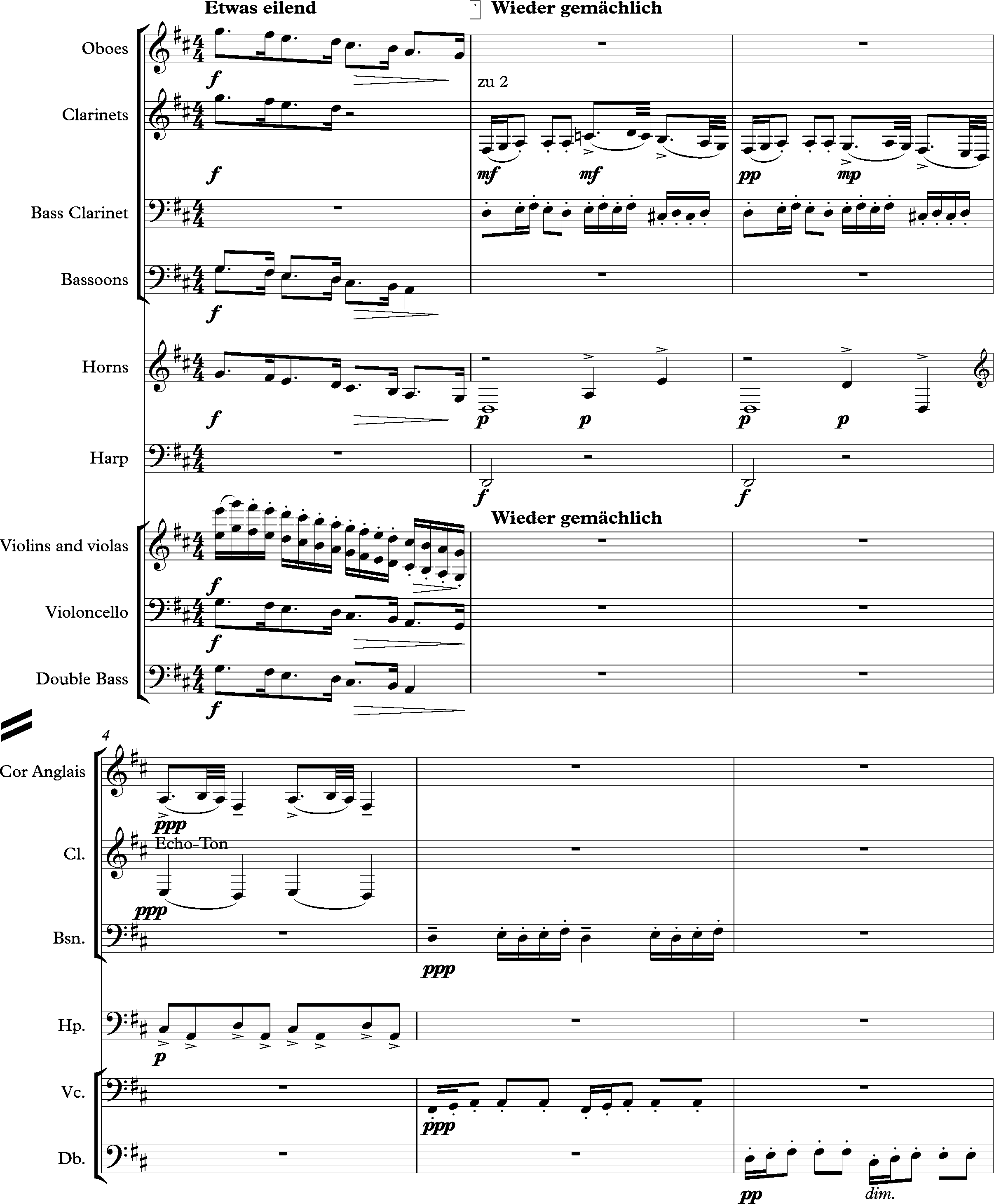 Mahler, Symphony No. 4, first movement, Figure 5